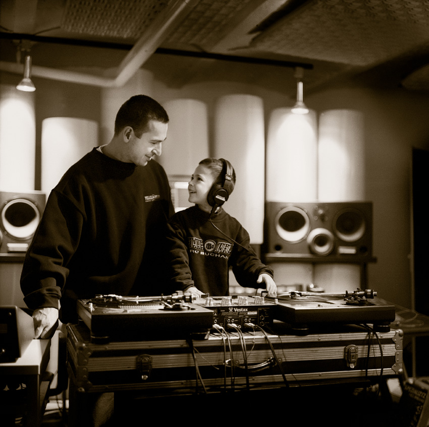 DJ Derenzon in Studio with son, Berlin 2002